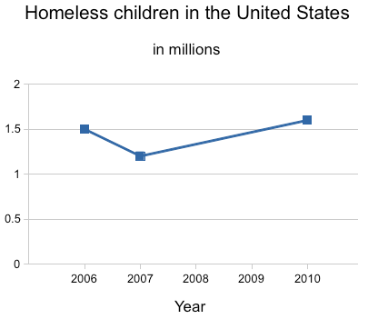 Homeless children in the US, 2006-2010 graph